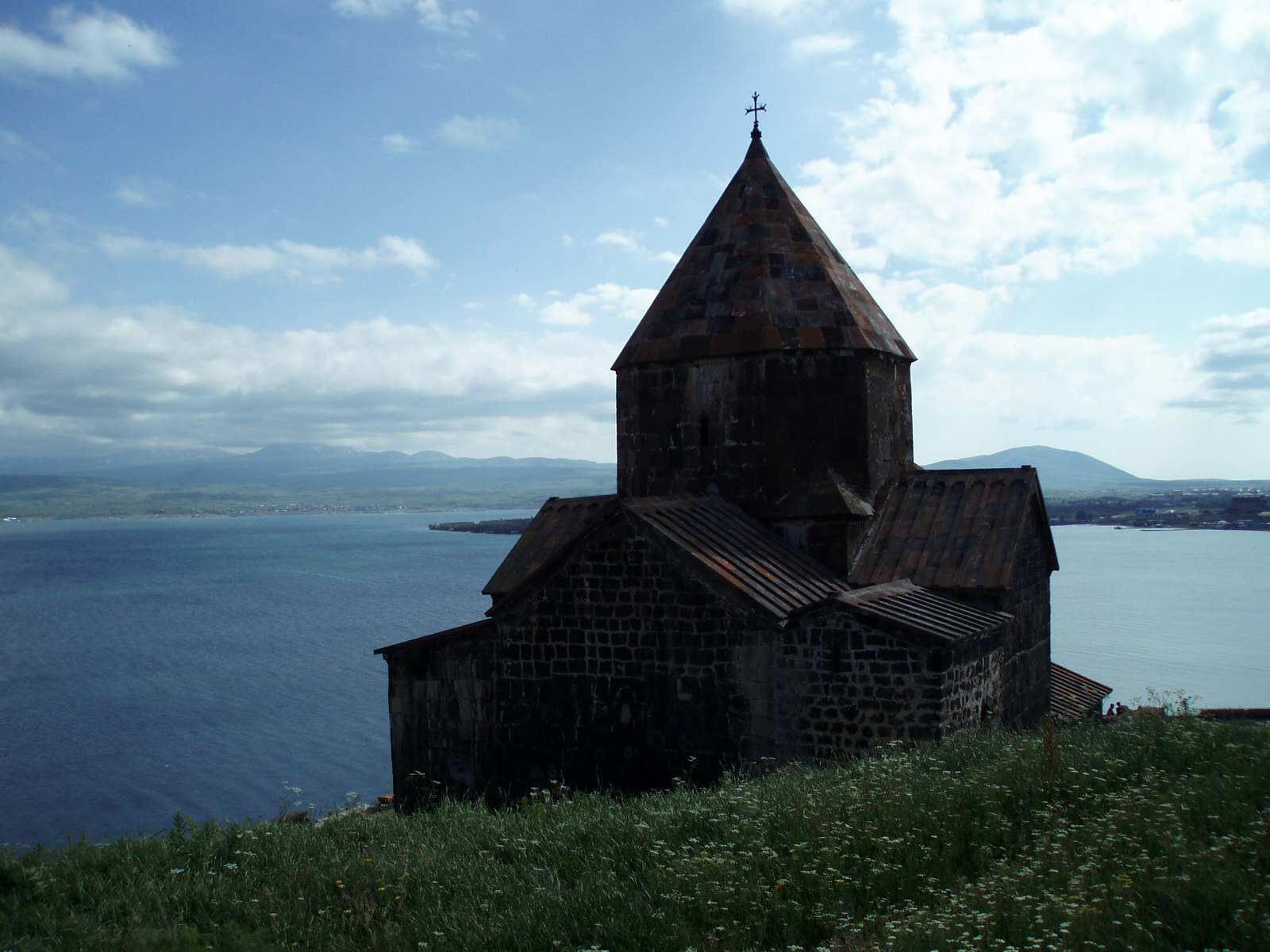 Photo from the set "Armenia Georgia 2007" by David Holt.